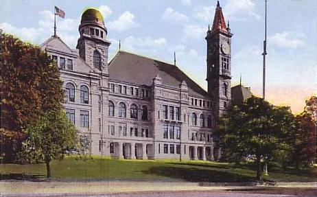 B.M.C. Durfee High School, Fall River, MA; from a c. 1920 postcard. The building was completed in 1886 and was in service until 1977, when a new high school was completed. It is now used as a trial court, and is considered one of Fall River's landmarks.